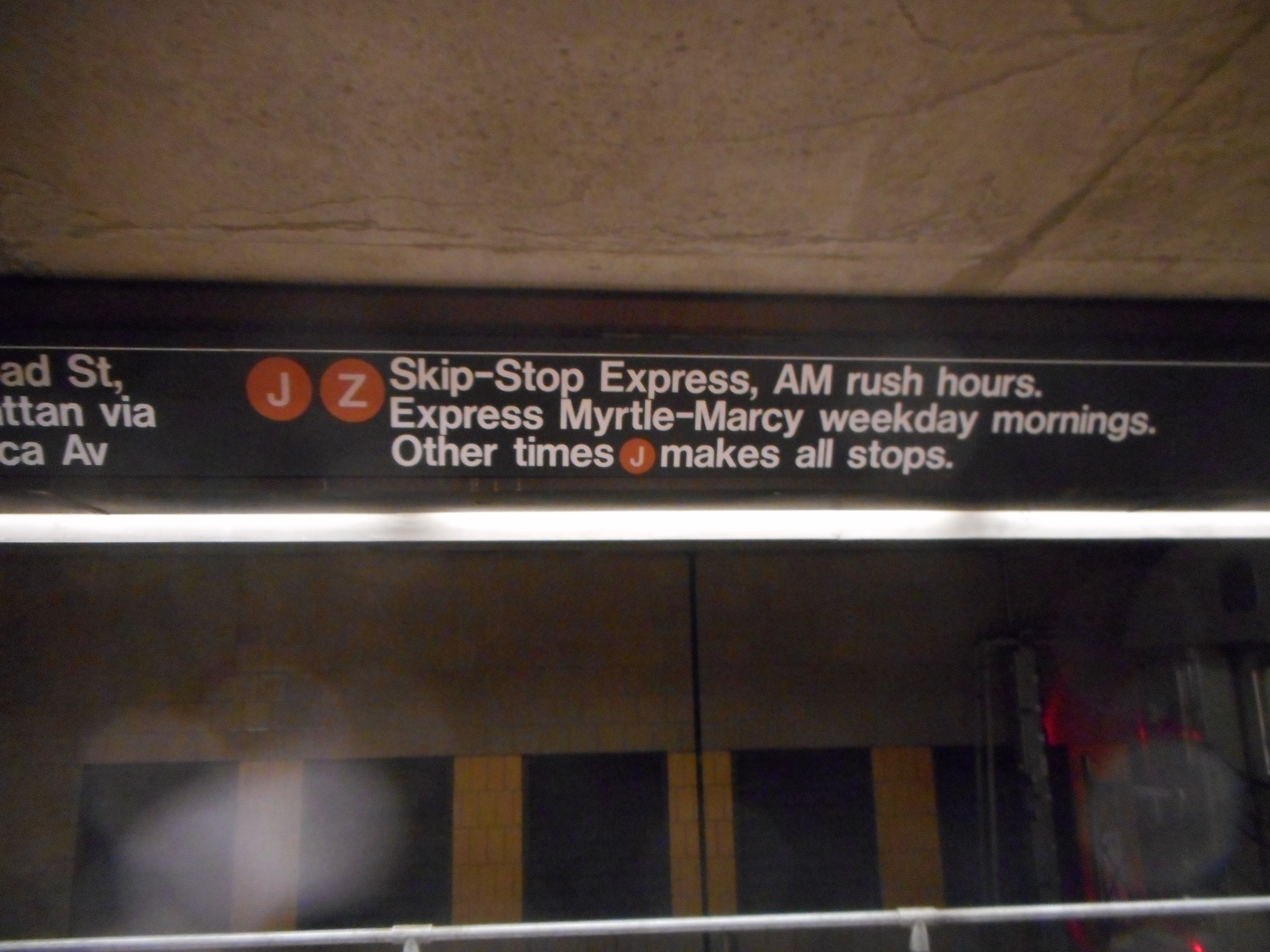 Sign along the Broad and Wall Street-bound tracks along the lower level platform of the Jamaica Center – Parsons/Archer New York City Subway station on the Archer Avenue Lines in the Jamaica section of Queens, New York City, indicating that skip-stop express service is available for the and trains, as well as express trains between Meeker and Marcy Avenue stations in Brooklyn.